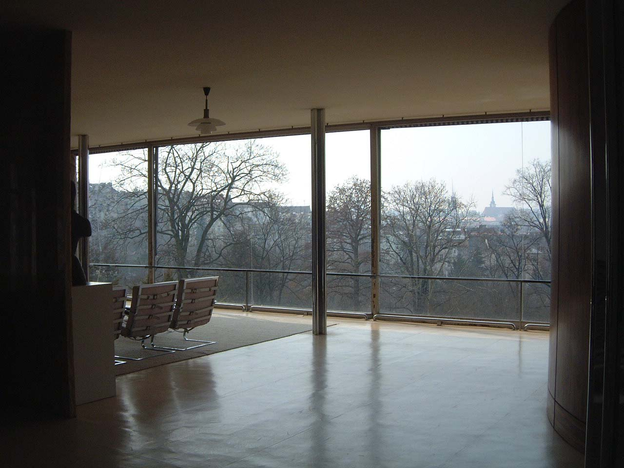 Tugendhat House. The view across the city from the living room, the onyx wall to the left.